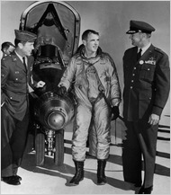 General White congratulated